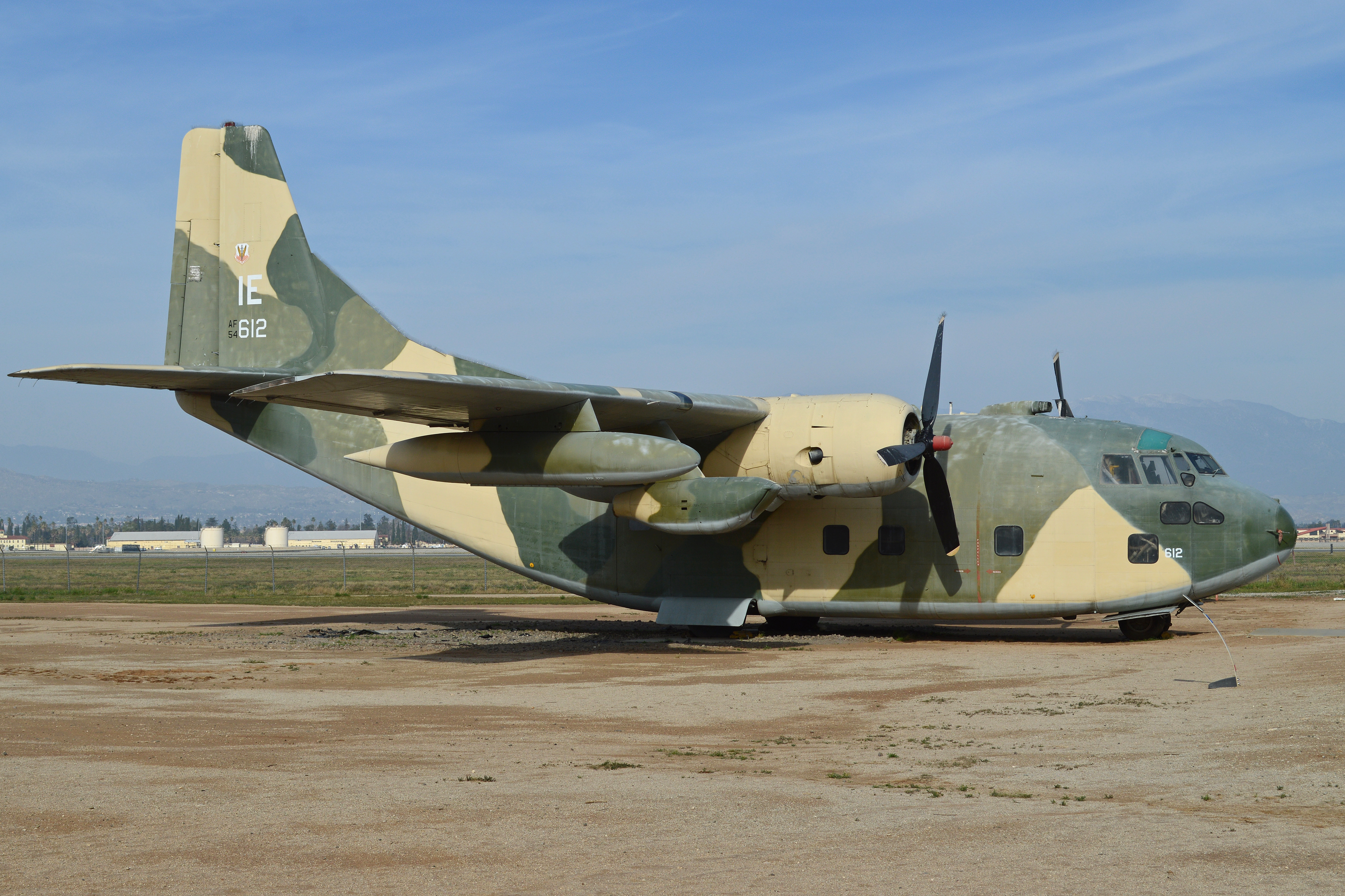 c/n 20061. Built 1955. US military serial 54-0612. On display at the March Field Museum, Riverside, CA, USA. 28-2-2016 The following history comes from the excellent museum website:- “Manufactured by Fairchild Aircraft, Hagerstown, MD, and was delivered to the Air Force on December 20, 1955 at Ardmore AFB, OK. It served at the following locations: Feb 1956 - To 309th Troop Carrier (Assault) Group (TAC), Ardmore AFB OK May 1956 - To 60th Troop Carrier (M) Wing (USAFE), Dreux AB France Jul 1958 - To 2584th Air Reserve Flying Center (AFRES), Memphis MAP TN Aug 1958 - To 2589th Air Reserve Flying Center (AFRES), Dec 1958 - To 445th Troop Carrier Wing (AFRES), Dobbins AFB GA. Jun 1963 - To 918th Troop Carrier Wing (AFRES), Dobbins AFB GA May 1965 - To 1st Air Commando Wing (TAC), Hurlburt Field FL Aug 1965 - To 1127th Field Activities Squadron (USAFE), Leopoldville AP Congo Apr 1966 - To 1st Air Commando Wing (TAC), England AFB LA Jun 1967 - To Fairchild, Hagerstown MD (converted to C-123K) Aug 1967 - Returned to 1st Air Commando Wing Mar 1968 - Unit became 1st Special Operations Wing (assignments to Lockbourne AFB OH) Aug 1969 - Unit moved to Hurlburt Field FL Jan 1972 - To 906th Tactical Airlift Group (AFRES), Lockbourne AFB OH Jun 1975 - To 355th Tactical Airlift Squadron (AFRES), Lockbourne (later Rickenbacker) AFB OH Sep 1981 - Dropped from USAF inventory by transfer to school or museum It made its last flight into March Field in 1981.”